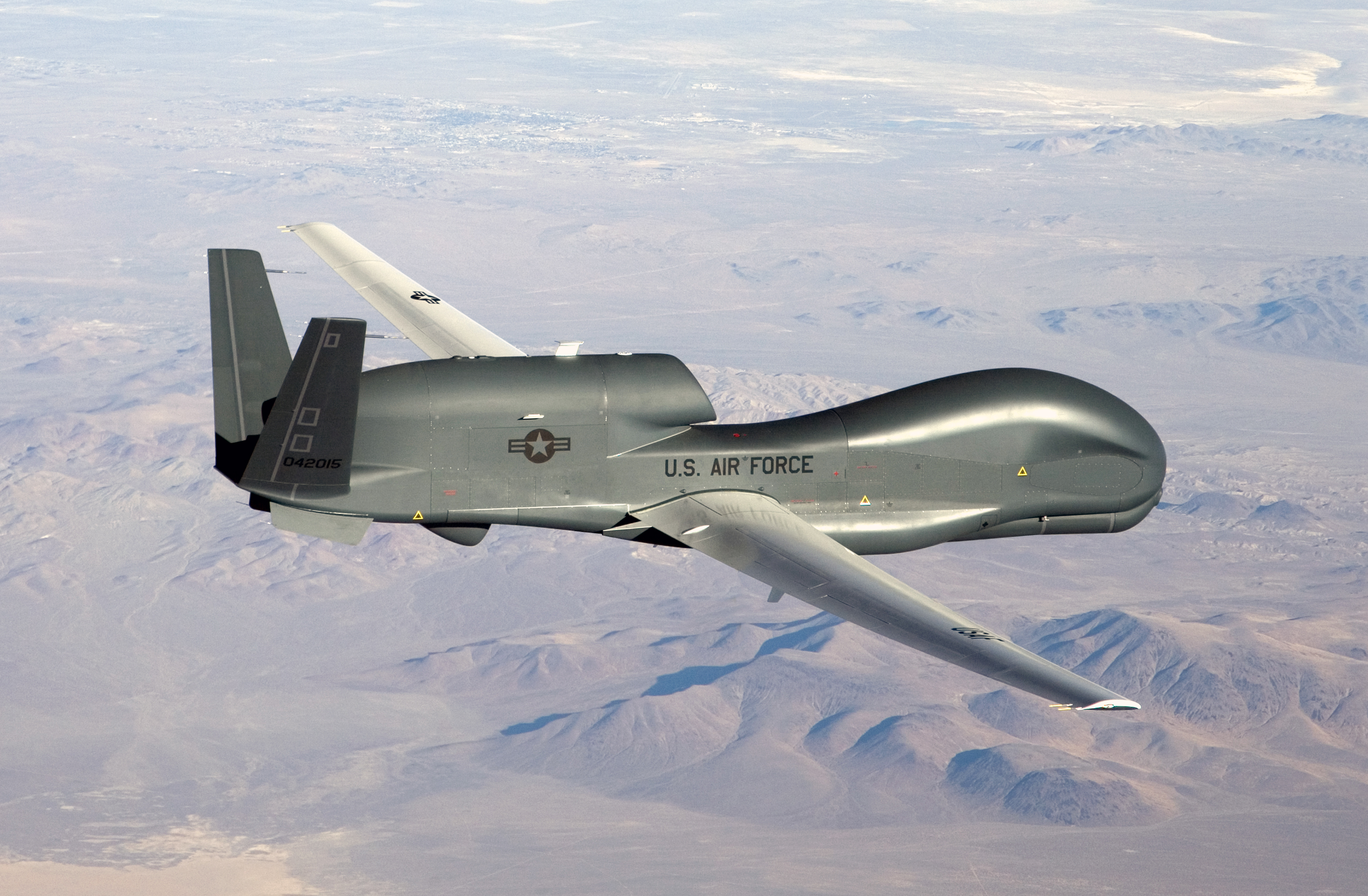 An RQ-4 Global Hawk unmanned aircraft like the one shown is currently flying non-military mapping missions over South, Central America and the Caribbean at the request of partner nations in the region.